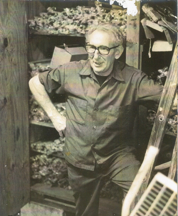 The master in the 60s